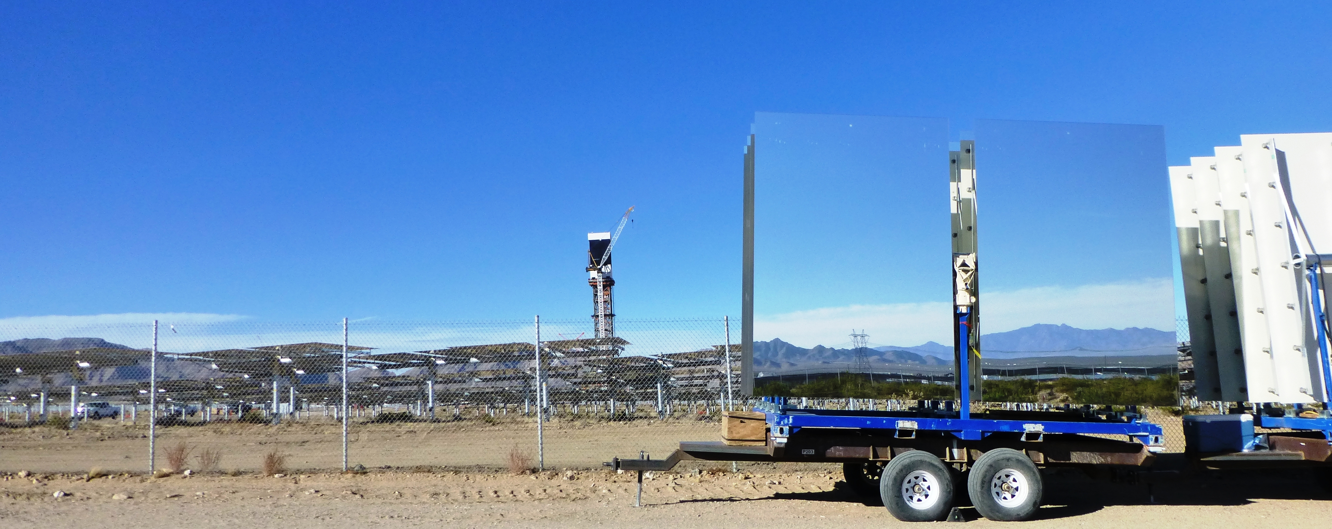 Power tower #2 of the Ivanpah Solar Electric Generating System under construction outside Primm, Nevada